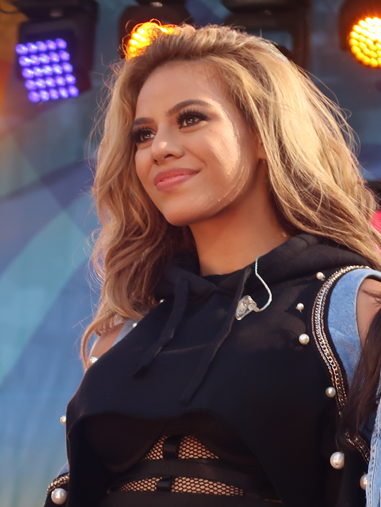 Dinah Jane on Good Morning America in NYC on June 2nd, 2017.